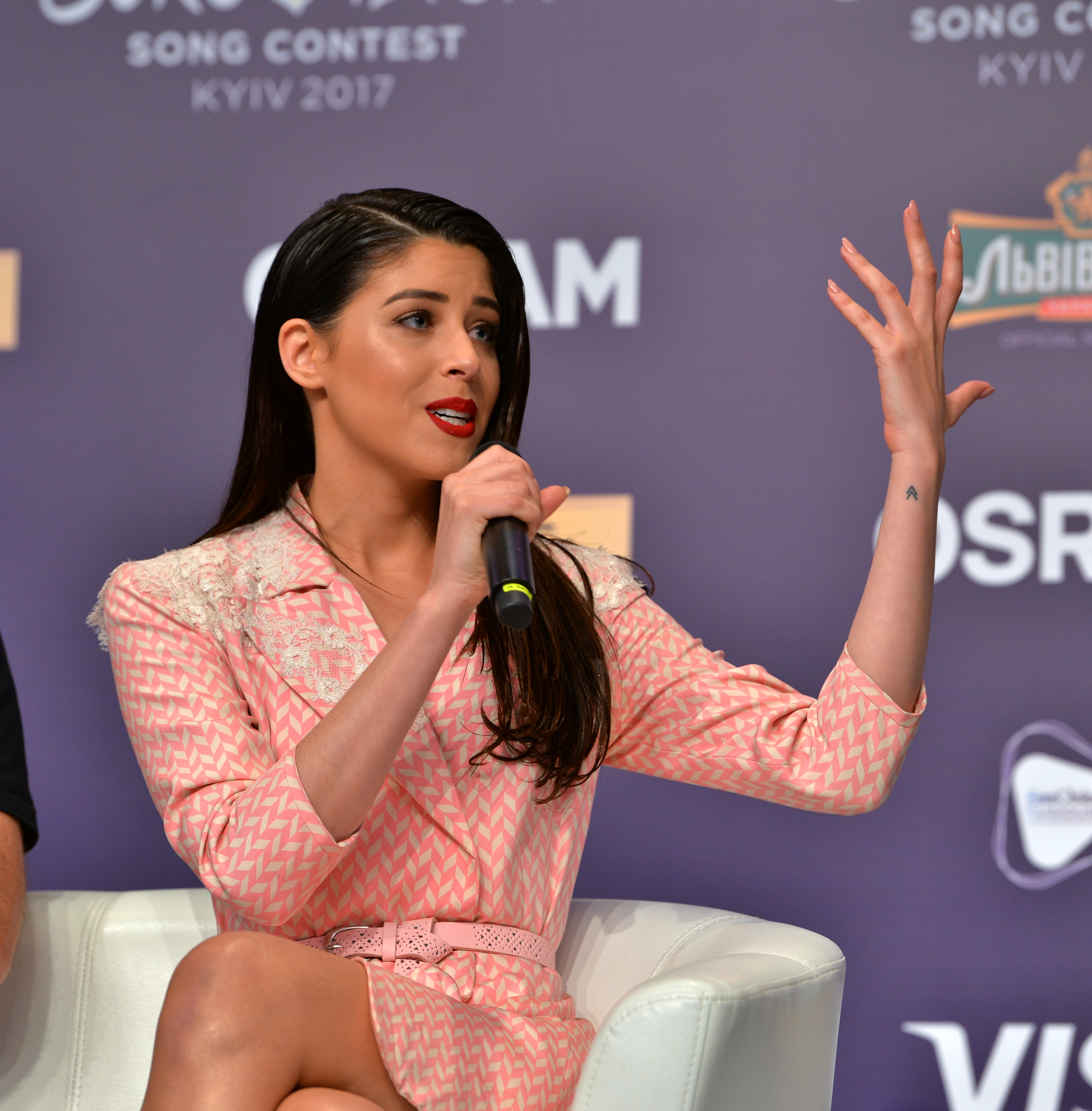 Greek singer Dimitra Papadea (Demy) on the Eurovision Song Contest 2017 in Kyiv